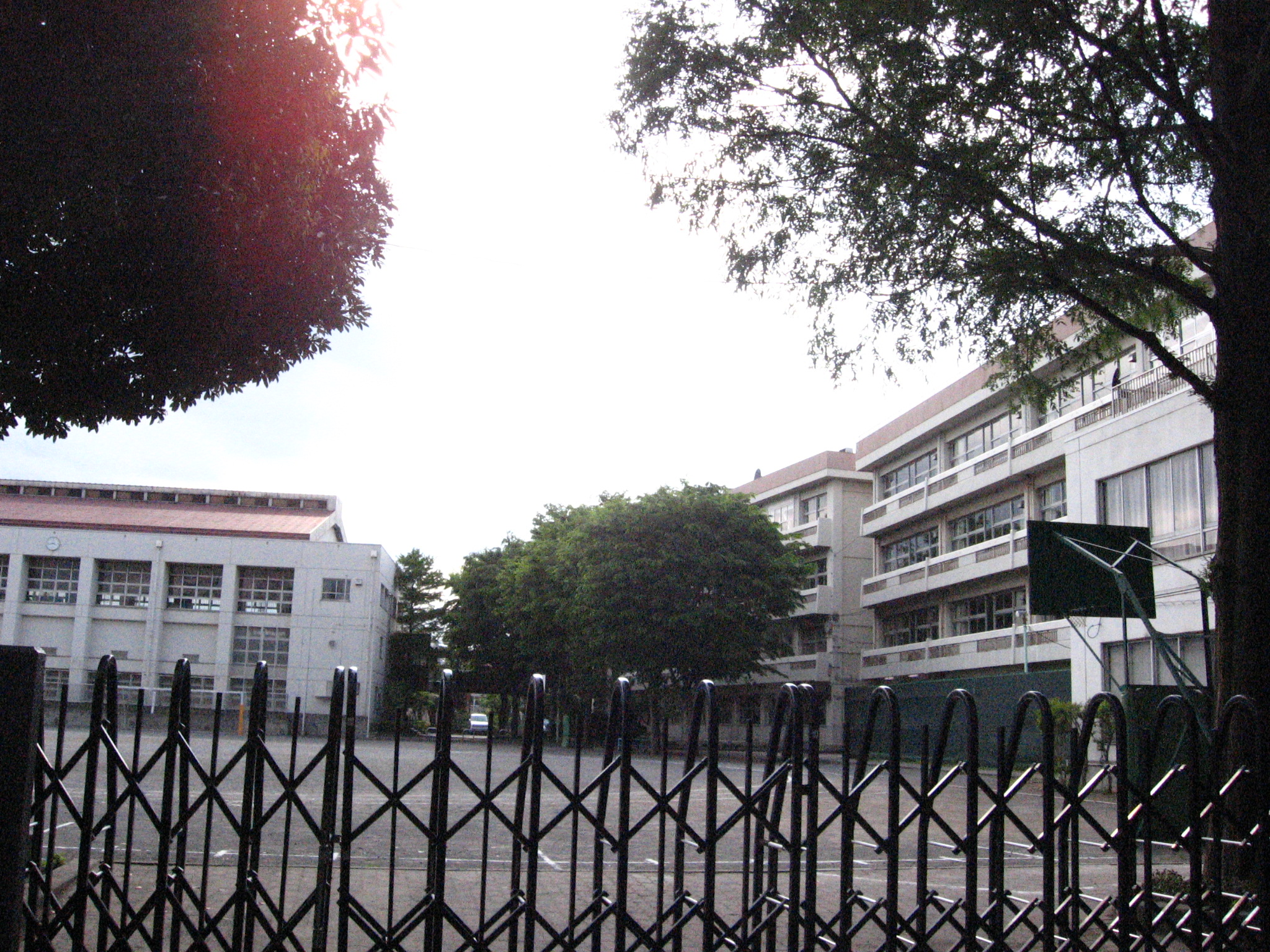 Musashino city 2nd Junior high school